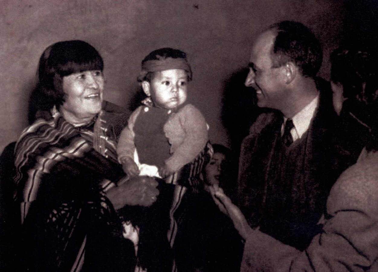 Artist Maria Martinez shown with physicist Enrico Fermi, winter 1945.